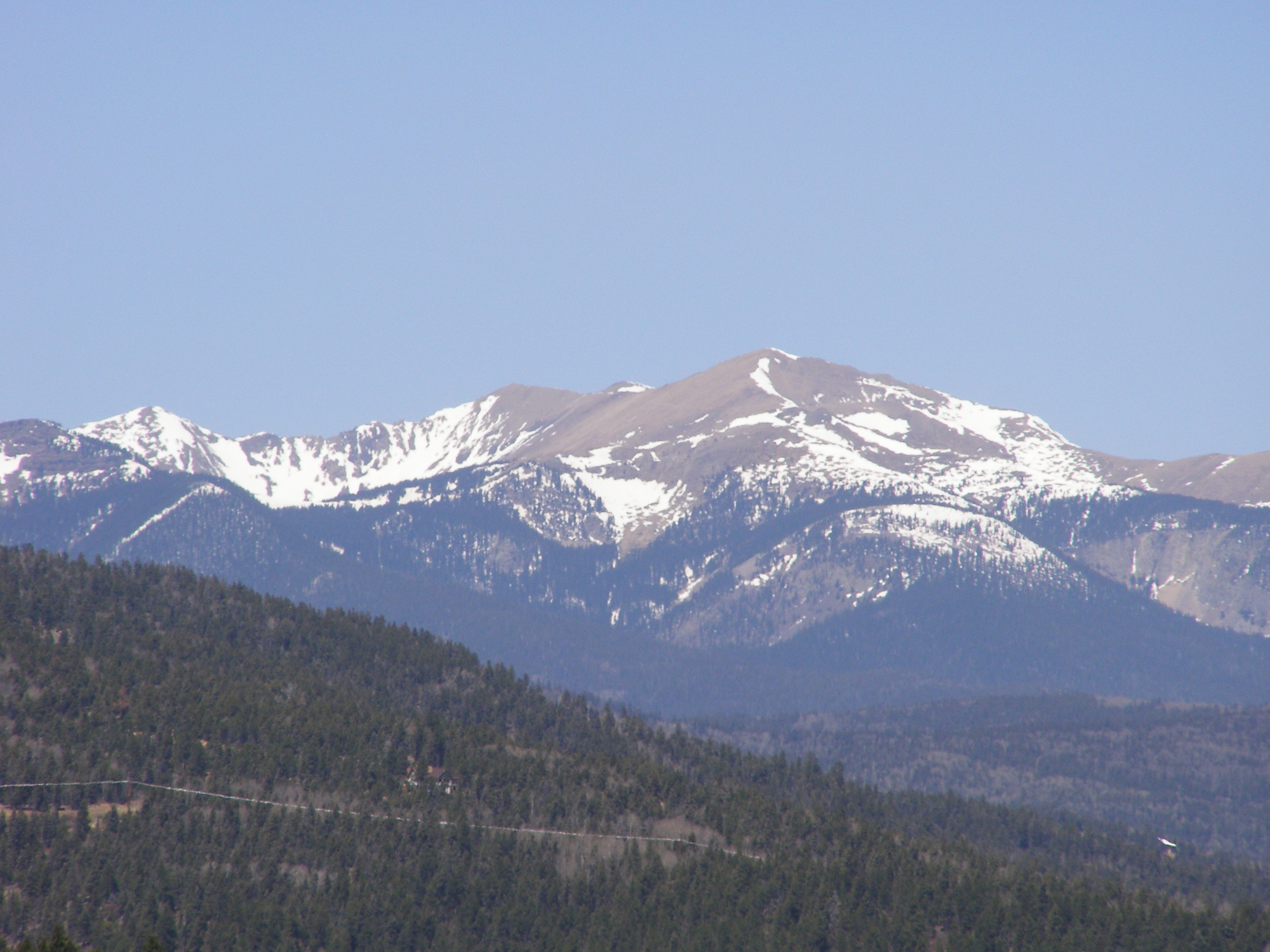 Wheeler Peak in the Sangre de Cristo Mountains of New Mexico. Taken from milepost 31 along New Mexico highway 434, on the southern outskirts of Angel Fire. As you get closer to the main section of Angel Fire, Old Mike Peak is visible, but not Wheeler Peak or Simpson Peak.